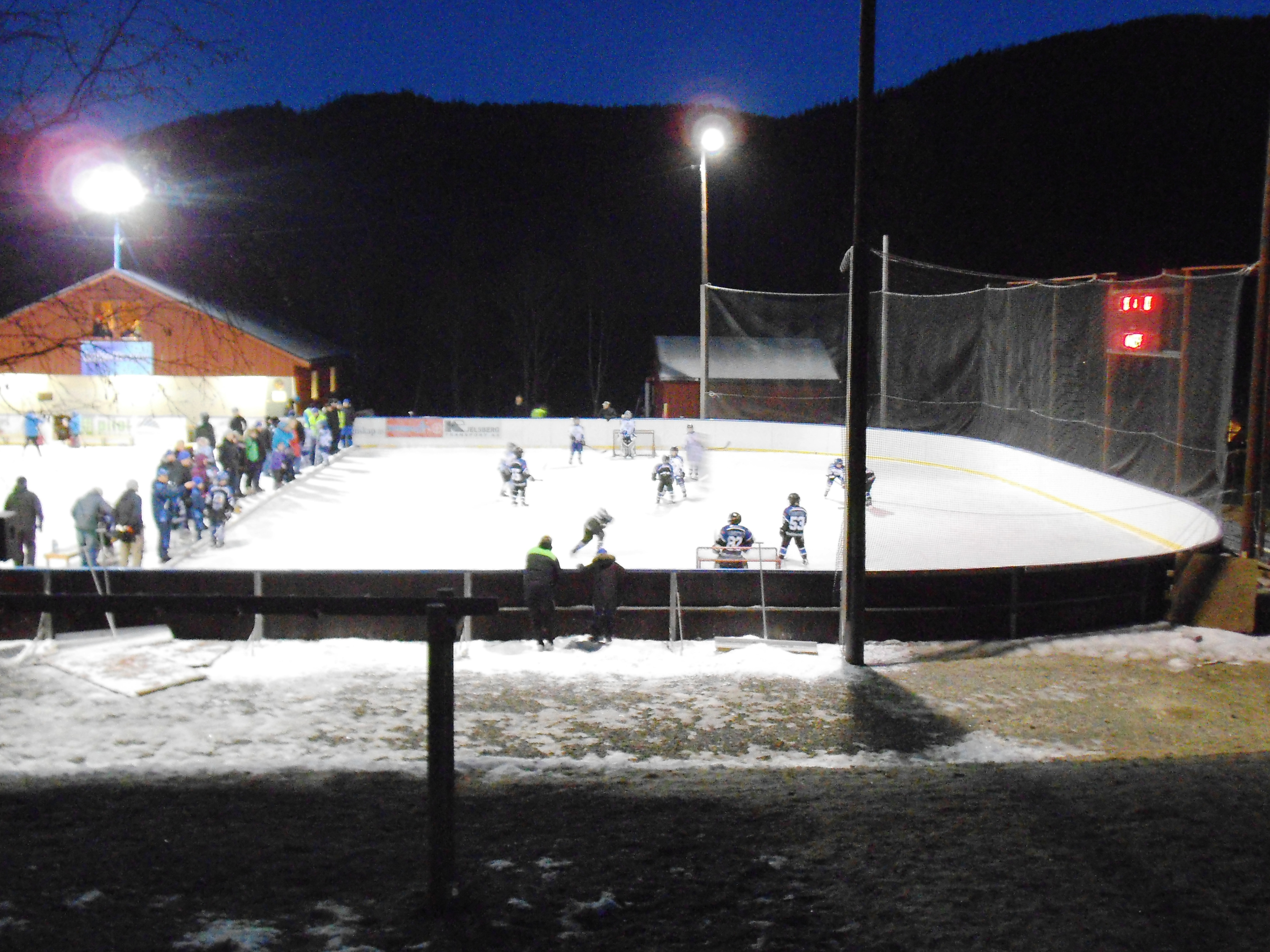 An ice hockey stadium located in Korsvegen, Melhus. It belongs to Leik ice hockey club.